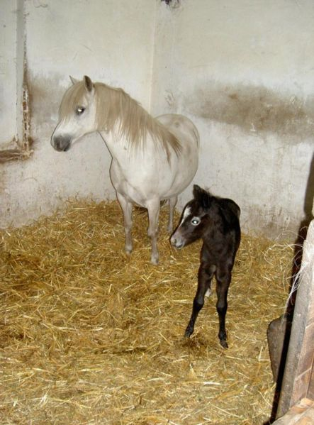 A gray mare with suckling foal. The light hairs around this foal's muzzle and eyes indicate that it will gray like its mother. Not all foals show signs of graying this young. Mare and foal with eyeshine from the tapetum lucidum.